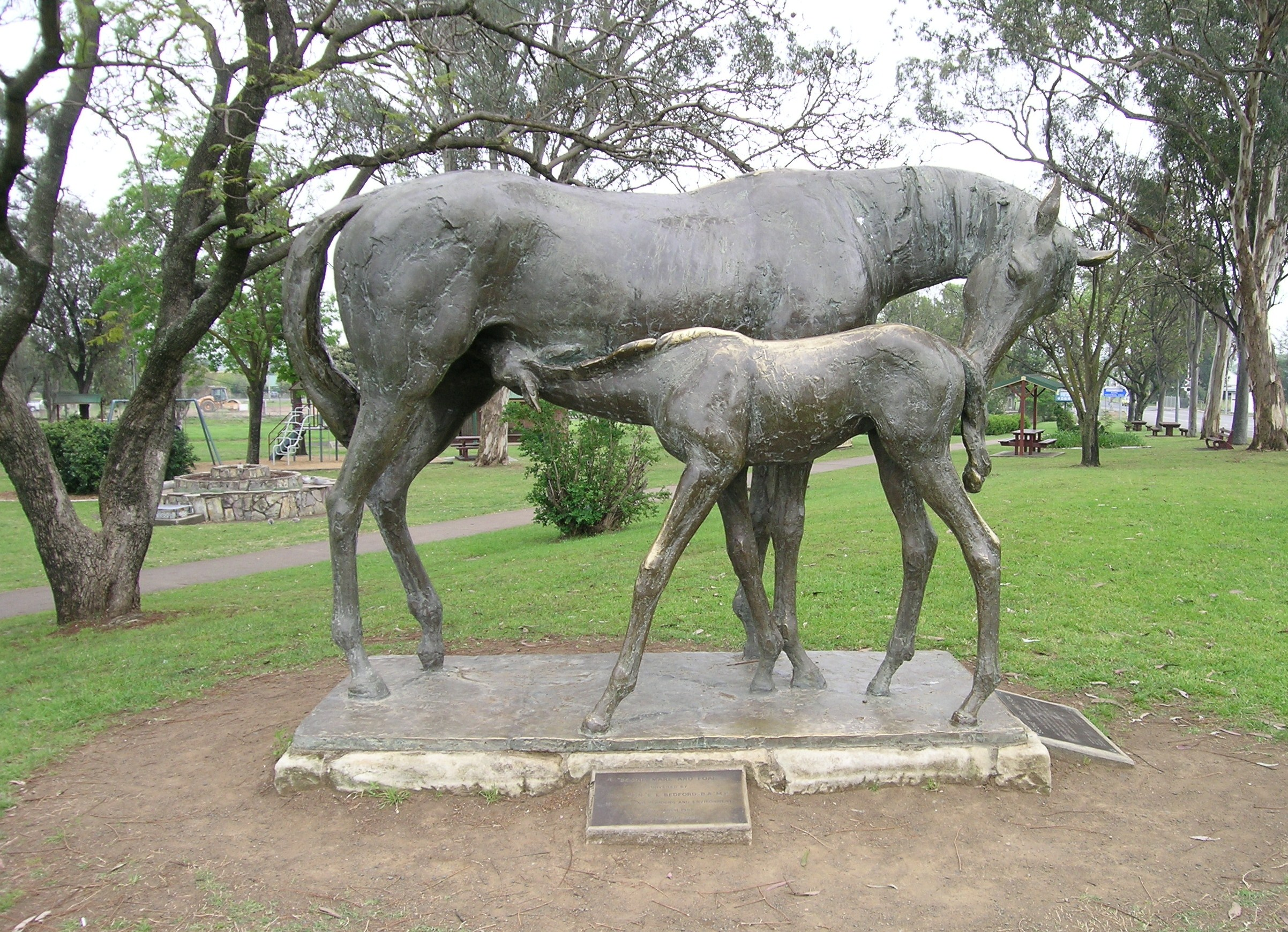 "Mare & foal", a bronze sculpture by Gabriel Sterk, Elizabeth Park, New England Highway, Scone, NSW